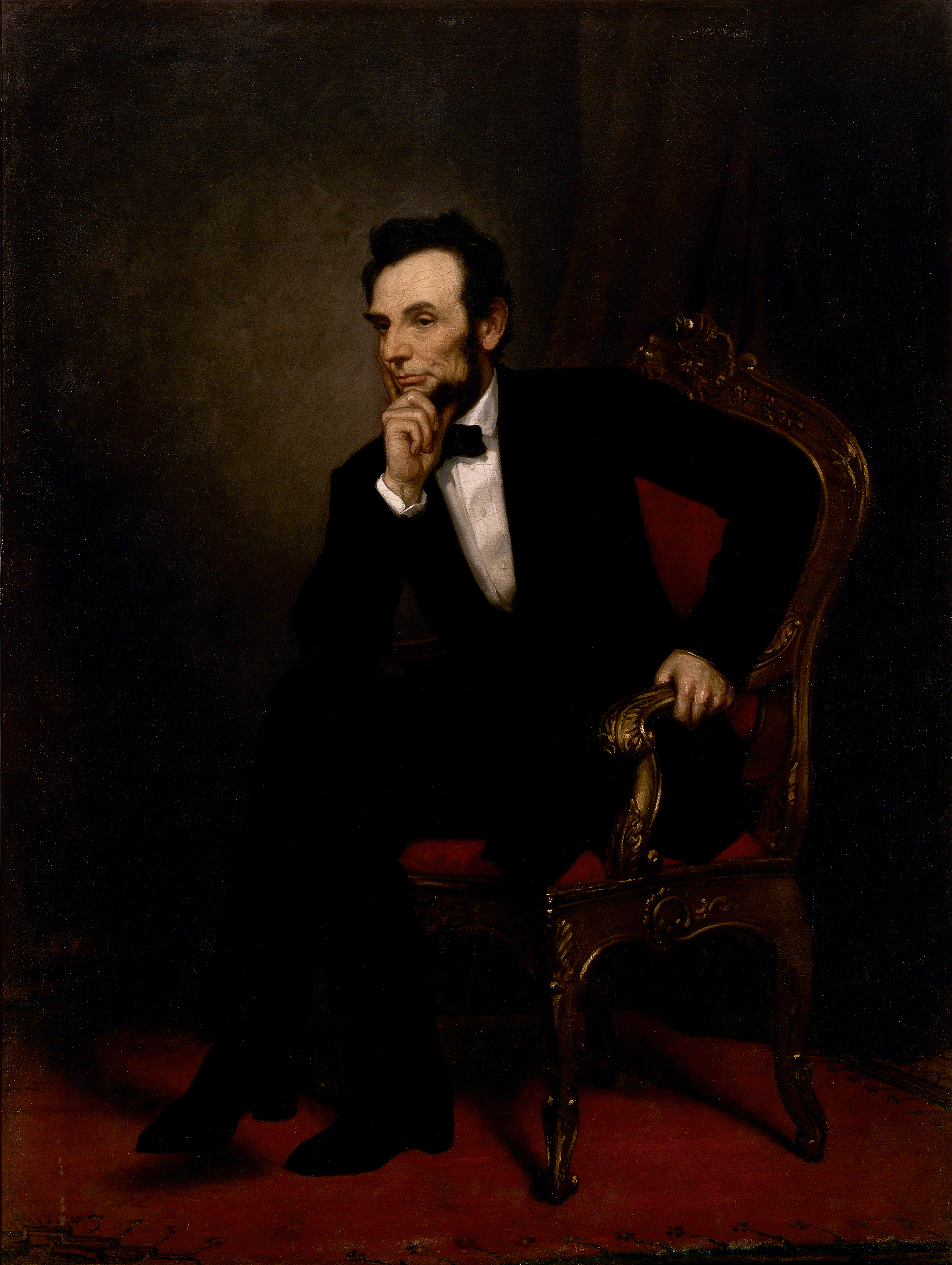 Depicted person: Abraham Lincoln, the 16th President of the United States.